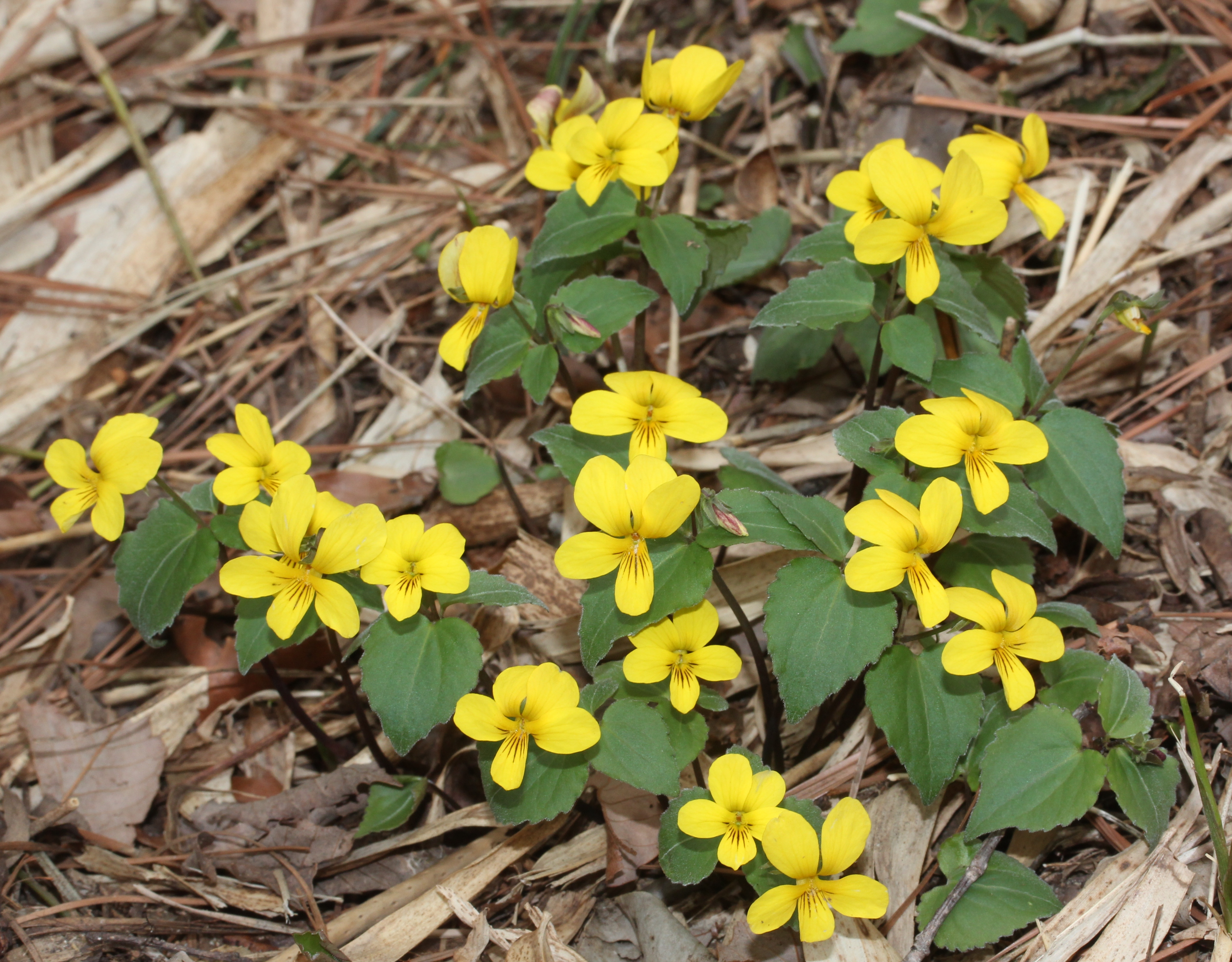 Viola orientalis in Yumihari Mountains, Toyohashi, Aichi prefecture, Japan.